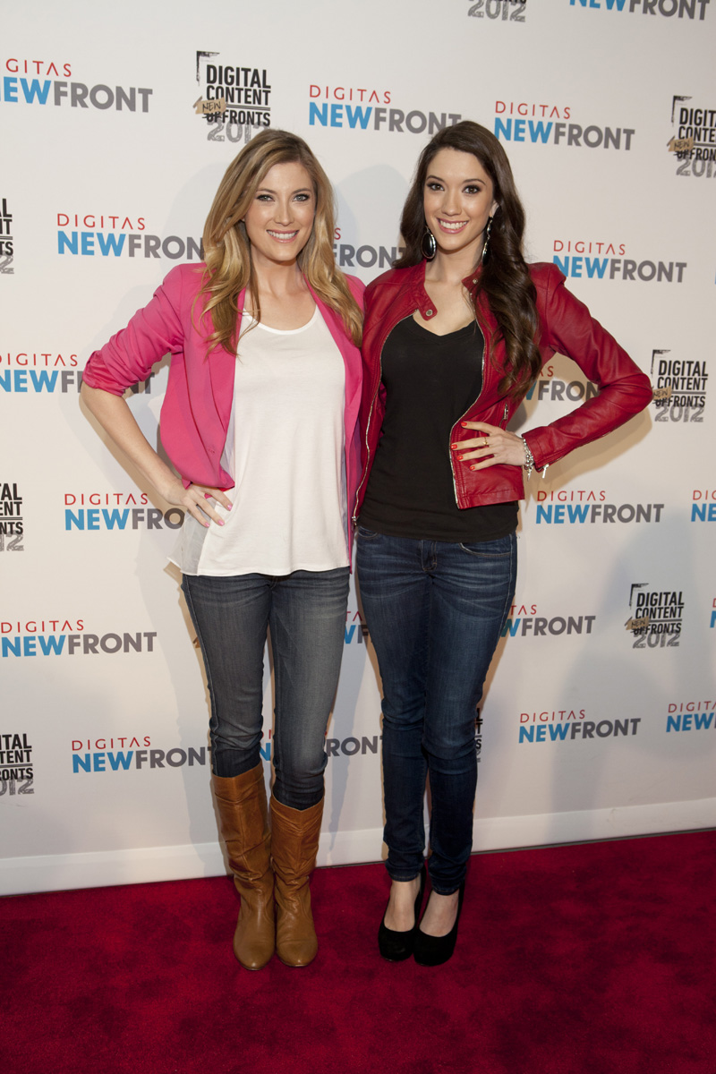 American fashion YouTube videobloggers Elle and Blair Fowler at Digitas NewFront 2012 marketing conference in New York.